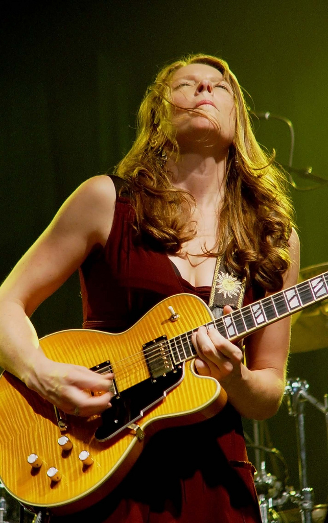 Susan Tedeschi performing in the Netherlands, 2006